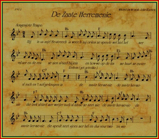 De Zaate Herremenie Winner best Maastrichter Carnival song of 1972